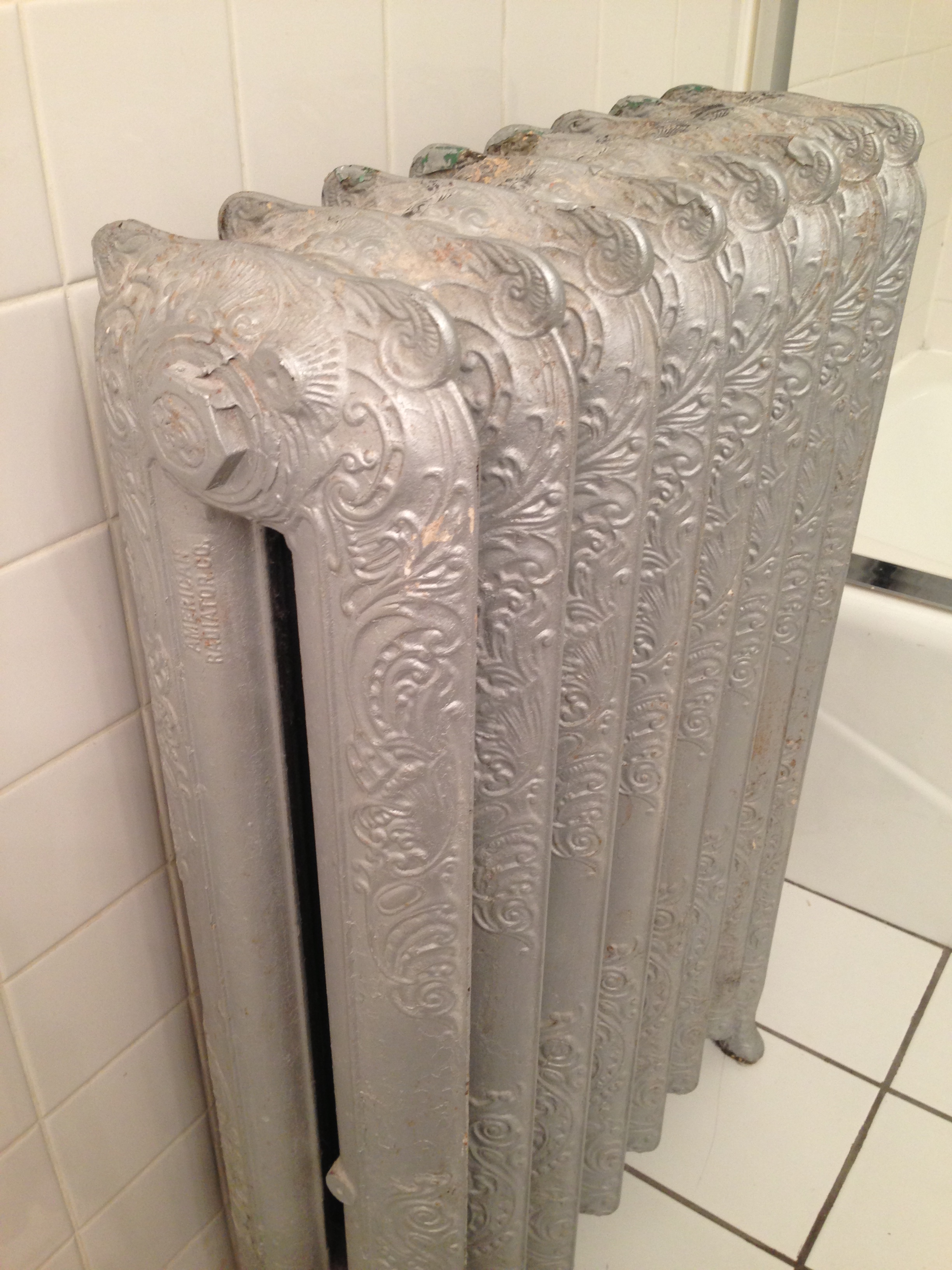 100 year old radiator